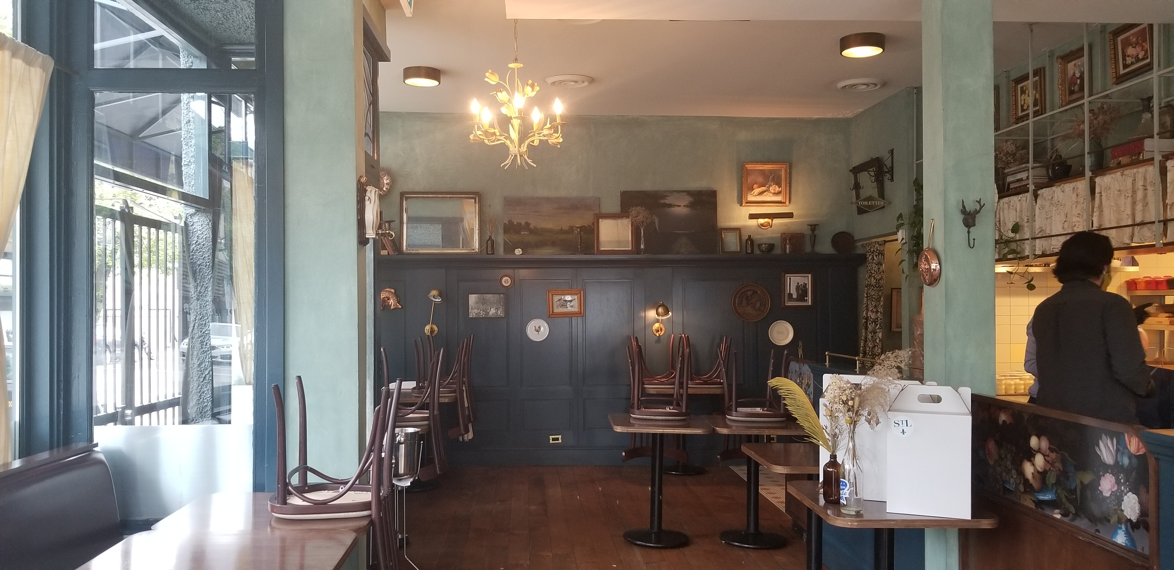 Interior of St. Lawrence restaurant in Vancouver, BC, showing the dining area, with the kitchen and a staff member slightly in frame on the right side. The wooden chairs are stacked on the tables. Photo was taken during dine-in closure for COVID-19.